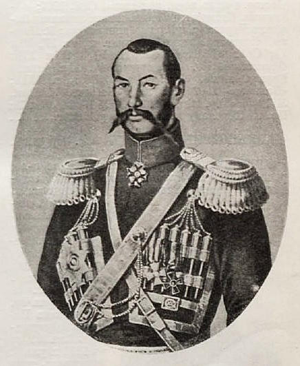 Krukovsky, Feliks Antonovich.